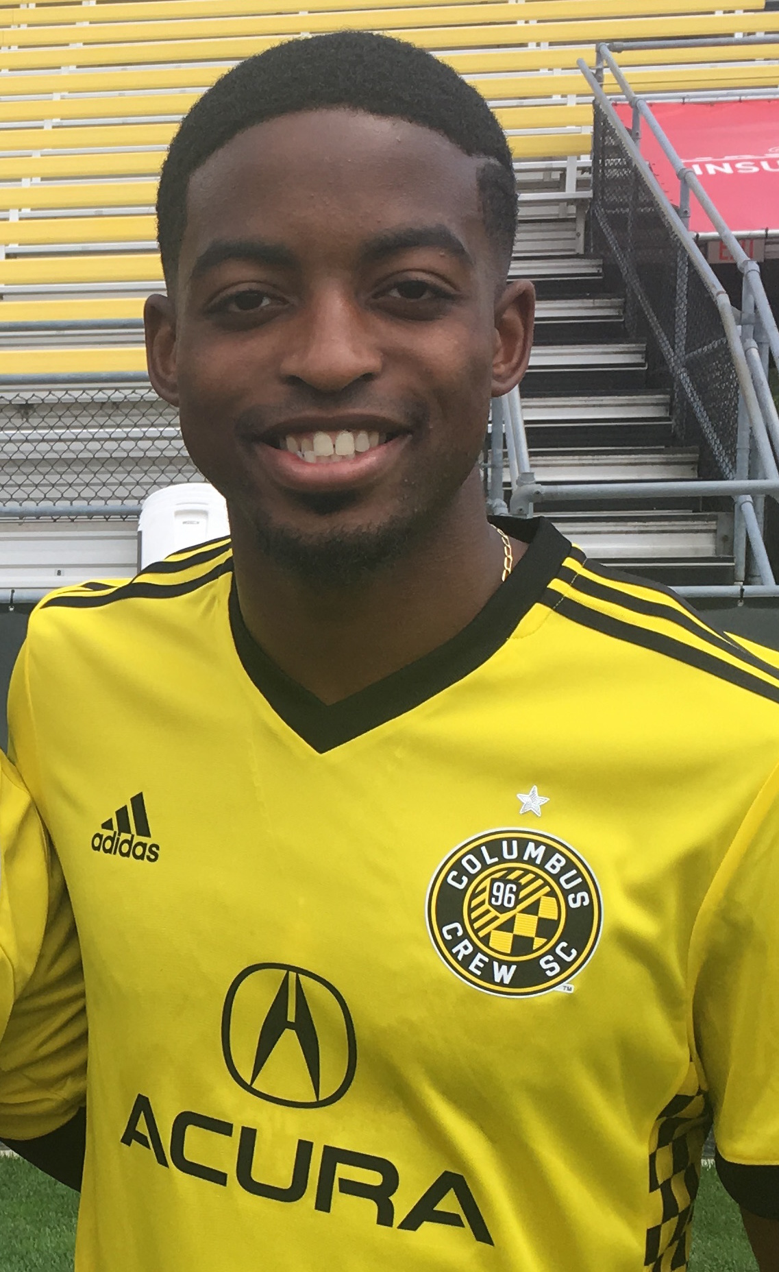 Picture of Abuchi Obinwa at a Columbus Crew SC Meet the Team event in 2017.